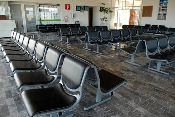 Airport MMEP